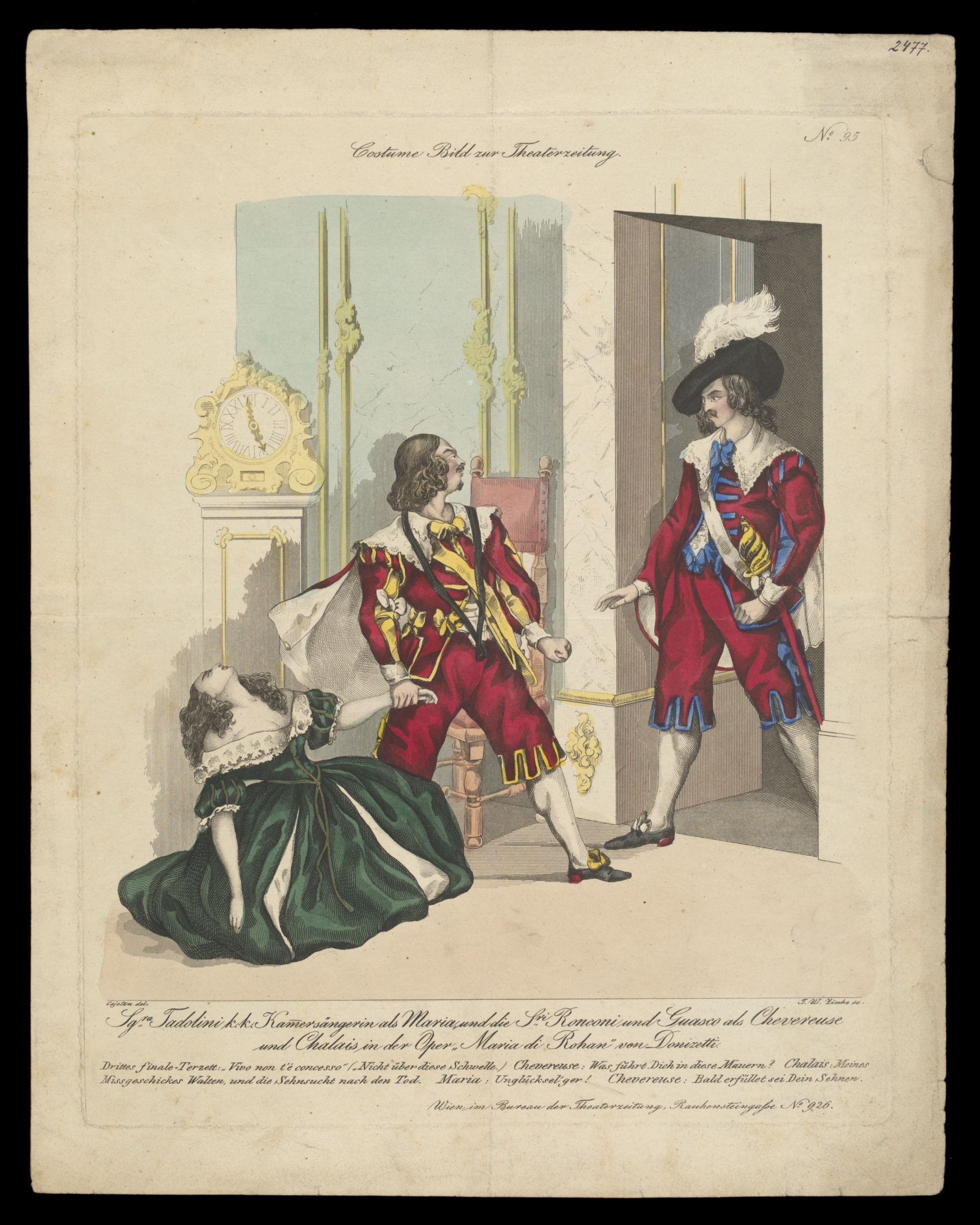 Costume design for Gaetano Donizetti's opera Maria di Rohan (1843) with Eugenia Tadolini as Maria, Giorgio Ronconi as Chevereuse and Carlo Guasco as Chalais. Published 5 August 1843 in Vienna by the Wiener Theaterzeitung.